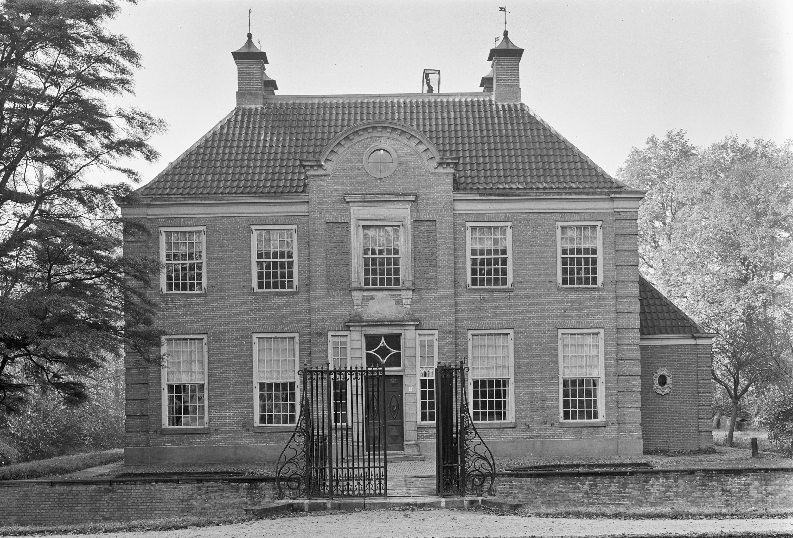 Miscellaneous: "The Aalshorst" facade